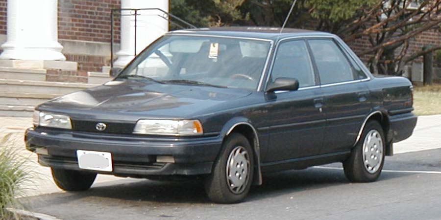 1987-1991 Toyota Camry photographed in USA.